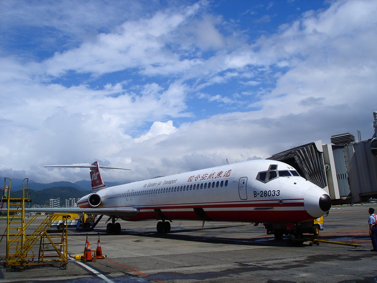 Far Eastern Air Transport MD-82 at Taipei Songshan Airport